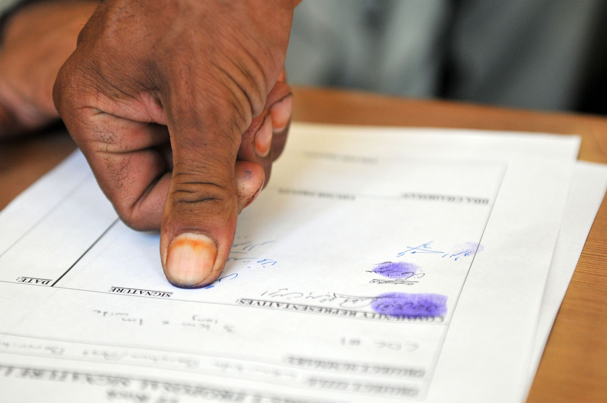 A District Development Authority member approves a community development project with signature and thumbprint in the Noorgal District of eastern Afghanistan's Kunar province, April 25. A DDA is a district's governmental body responsible for implementing community development projects across their district. Potential future projects include schools, retaining walls and water wells.